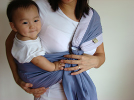 Hip Carry using a Baby Ring Sling